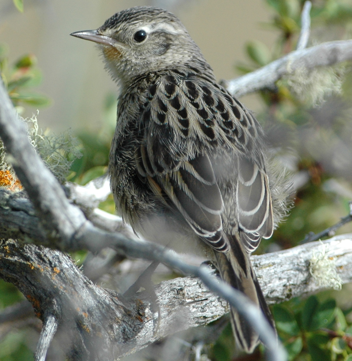 Cabo Virgines Januarie 2007